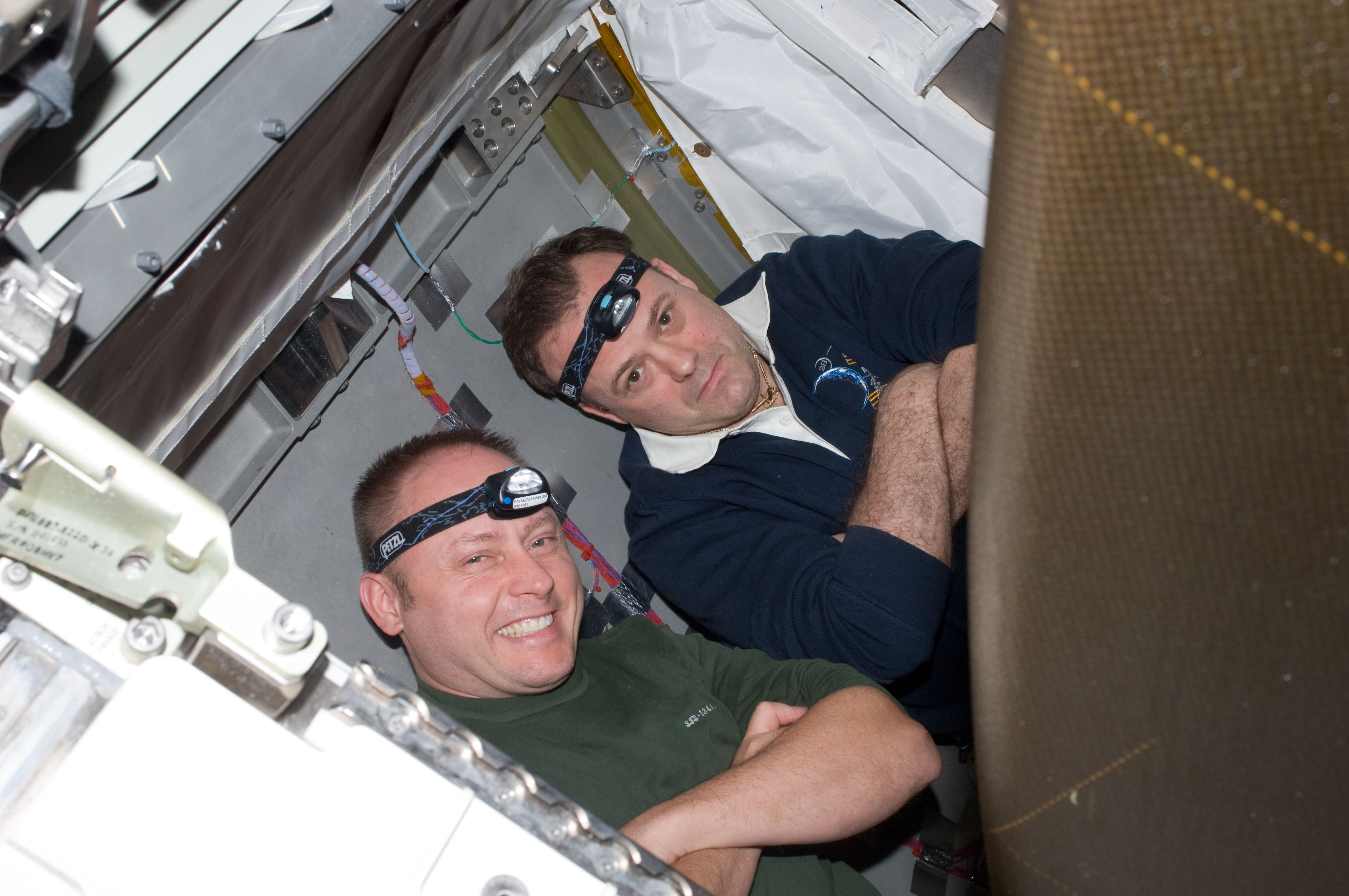 NASA astronauts Michael Fincke (left), STS-134 mission specialist; and Ron Garan, Expedition 28 flight engineer, pose for a photo while working behind a rack on the International Space Station while space shuttle Endeavour remains docked with the station